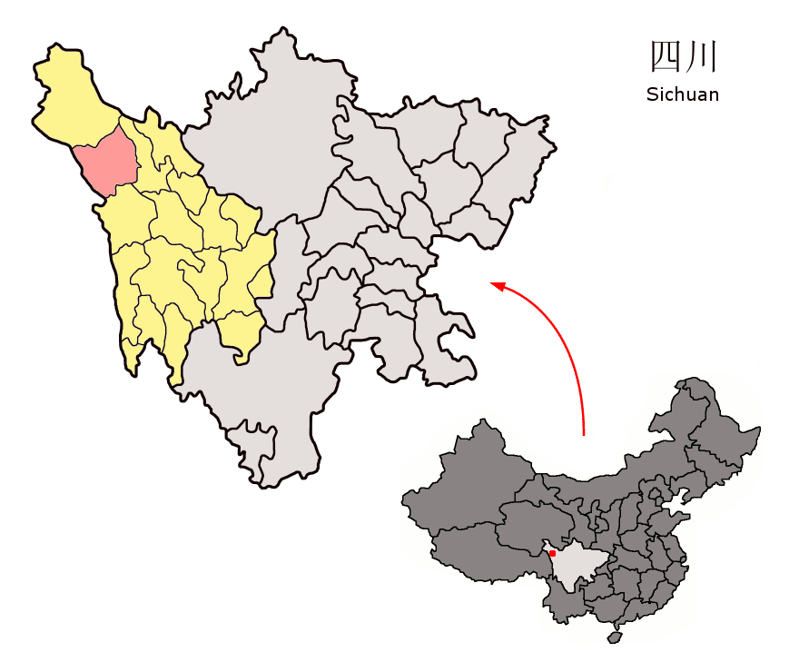 Location of Dêgê County (pink) and Garzê Prefecture (yellow) within Sichuan province of China Map drawn in september 2007 using various sources, mainly : Sichuan province administrative regions GIS data: 1:1M, County level, 1990 Sichuan Counties map from